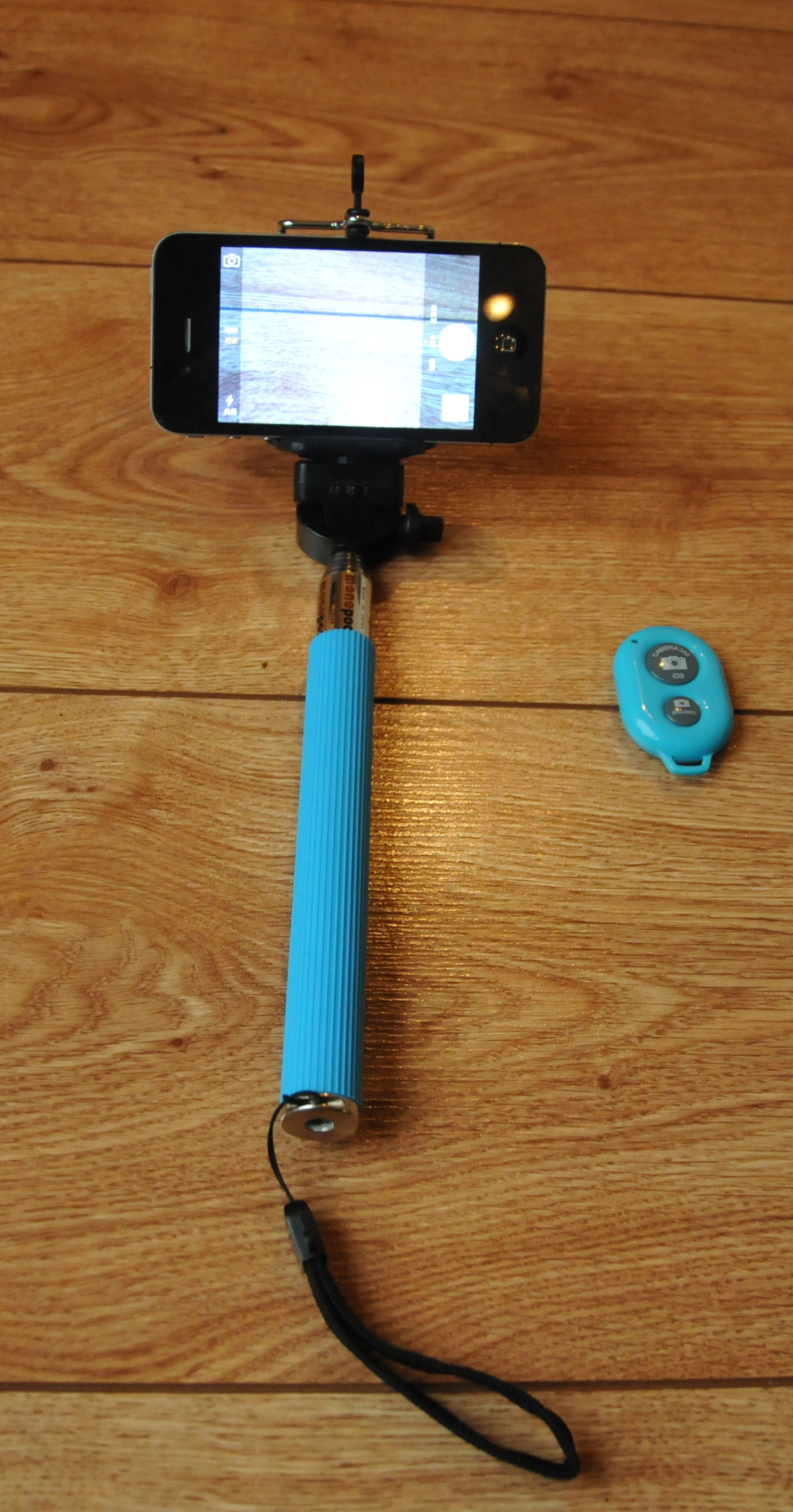 Selfie Stick in its not expanded form